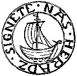 Sign of Näs Hundred.